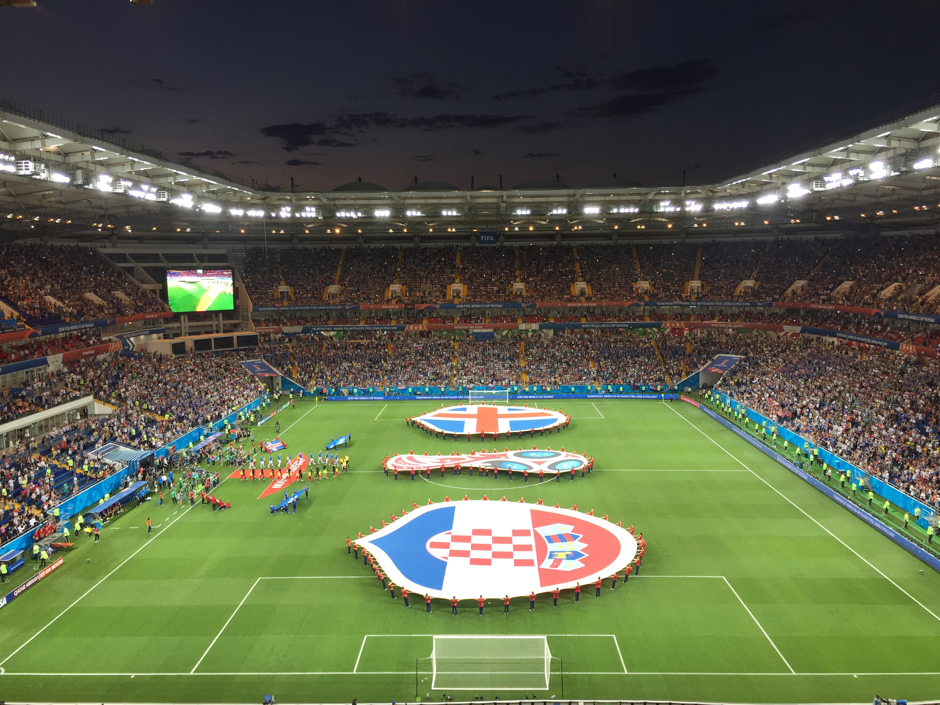 Croatia - Iceland match, Group D, 2018 FIFA World Cup.